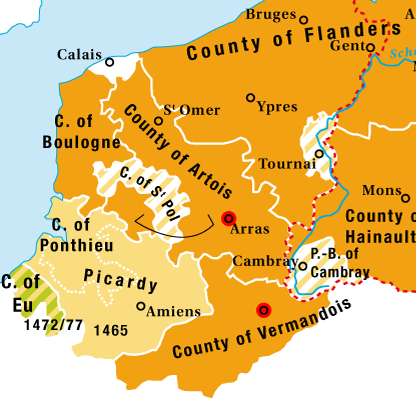 Territories of the House of Valois-Burgundy during the reign of Charles the Bold, 1465/67–1477